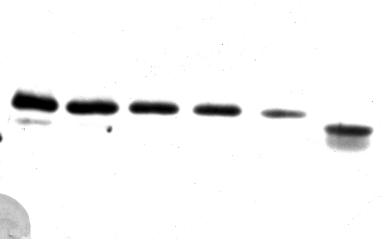 Westernblot of a protein different concentrations